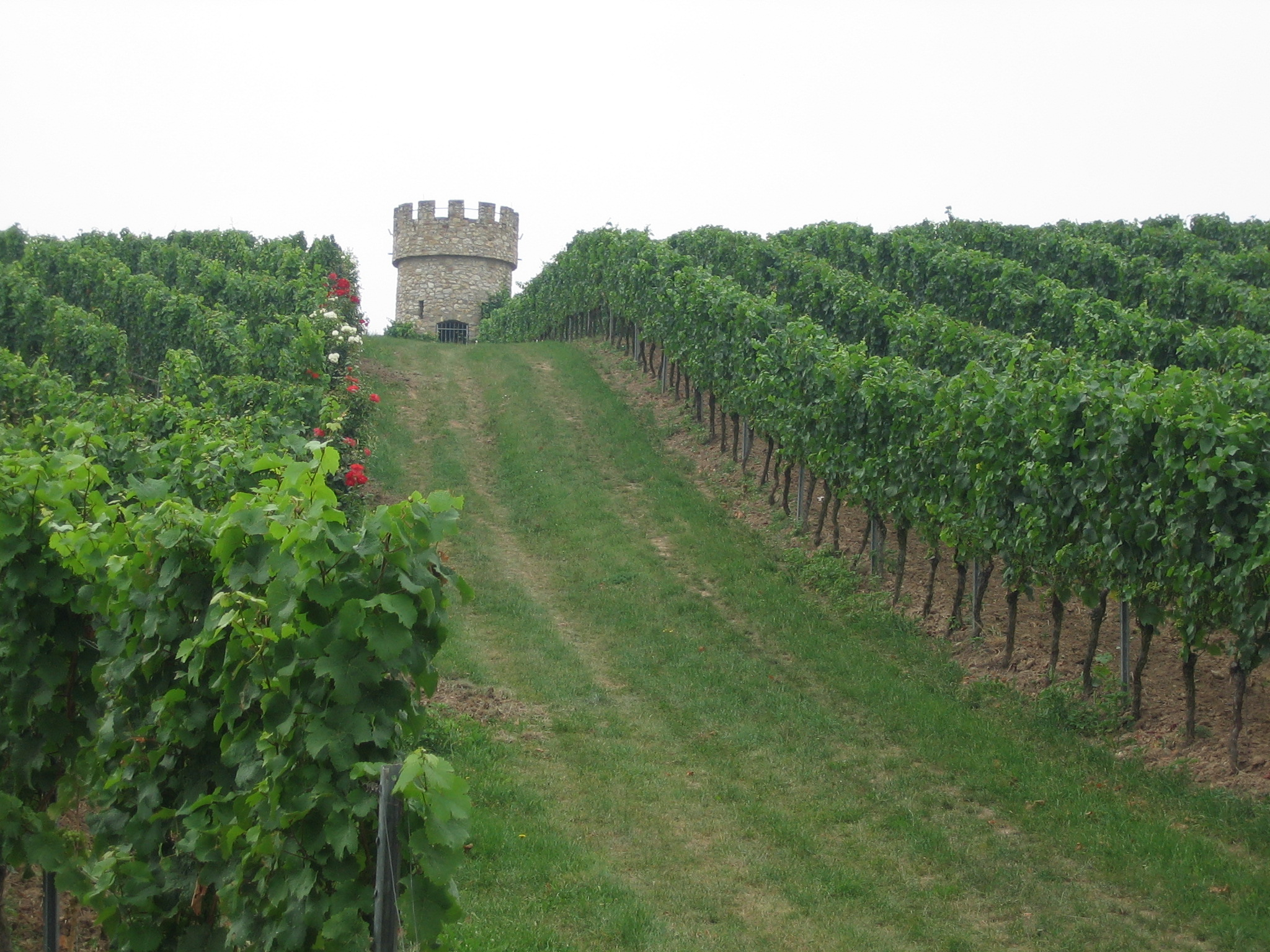 The individual site "Dalsheimer Hubacker". Uphill view to the 6 meters high stonetower, which had been built from lime stone of of the site and the region as a memorial for Hedwig Keller (1948-200).